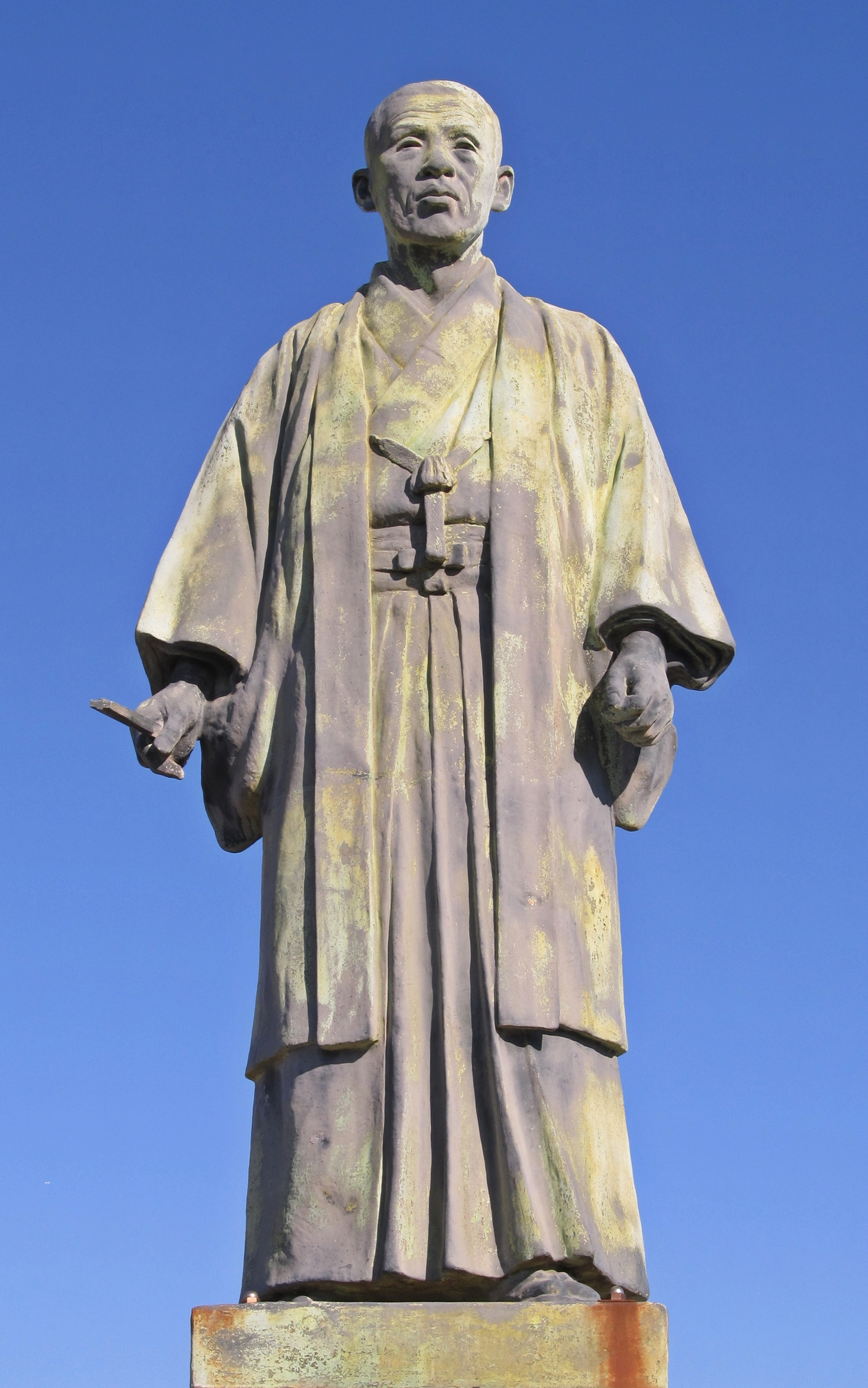 Statue of Yao Zenshirō(Hyōgo-ku,Kobe,Hyogo,Japan).Built in 1919.